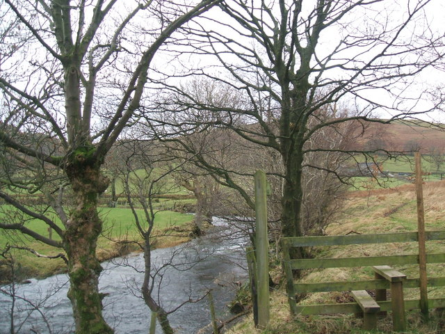 St. John's Beck and stile